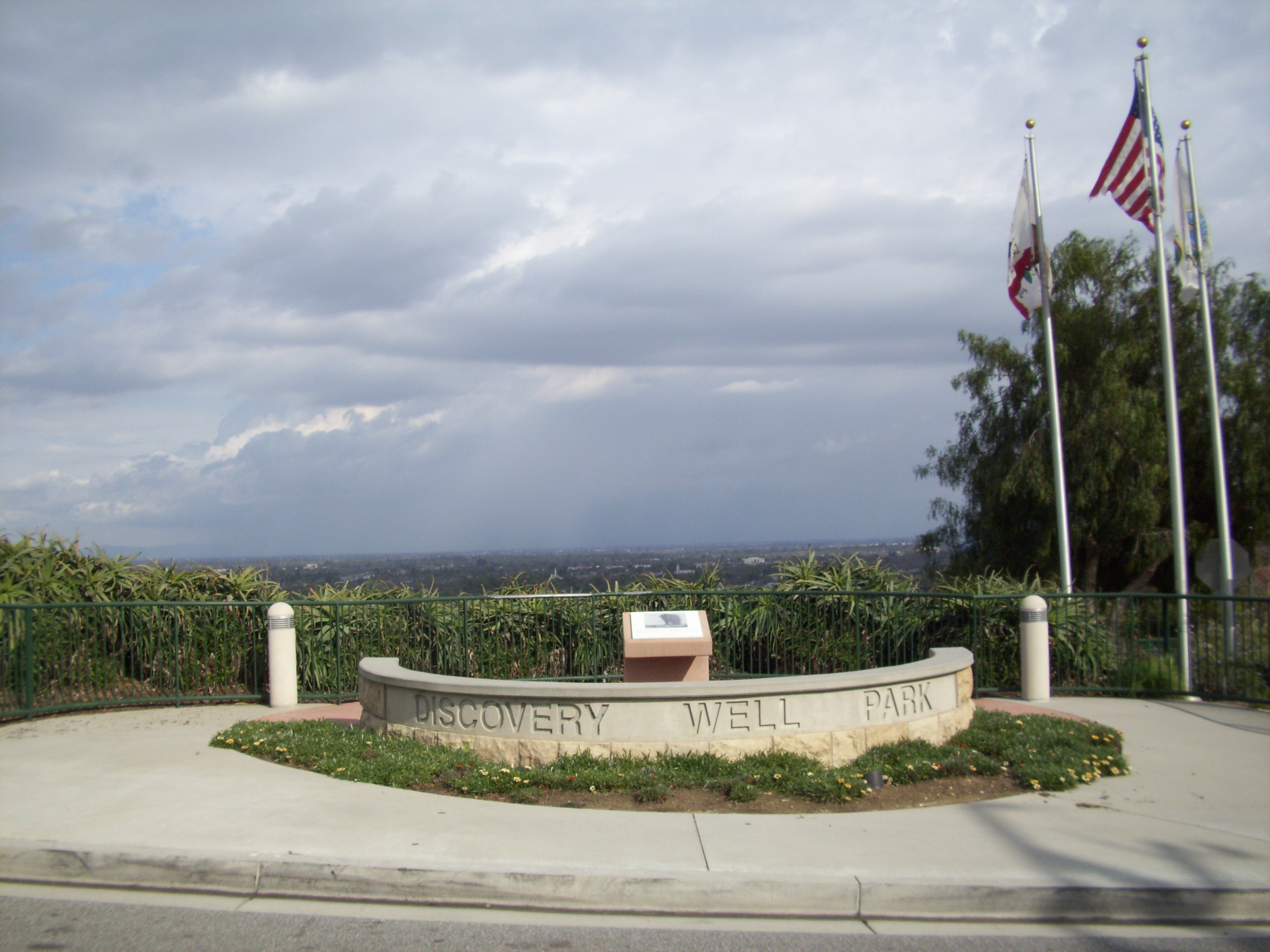 One of the world's most famous wells. Started on March 23,1921, it flowed 590 barrels of oil a day when it was completed June 25, 1921, at a depth of 3,114 feet. This discovery well led to the development of one of the most productive oil fields in the world and helped to establish California as a major oil producing state. Location: NE corner of Temple Ave and Hill St, Signal Hill